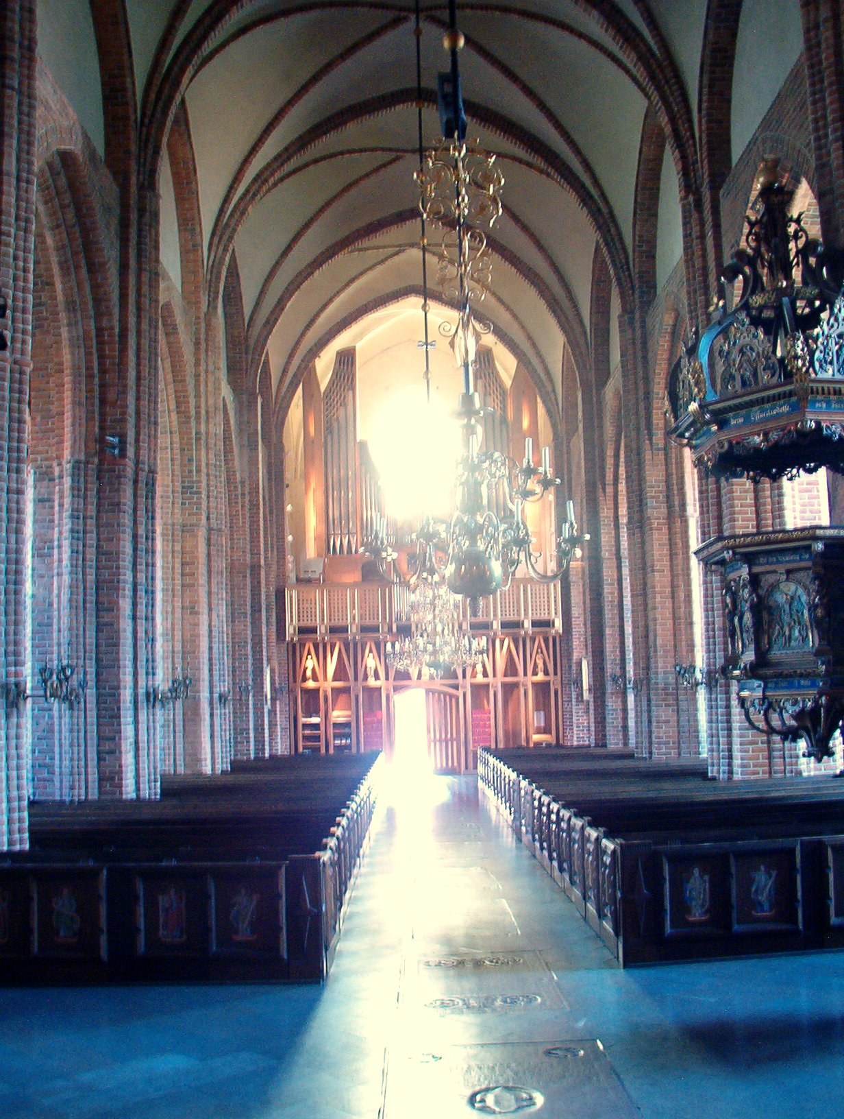 Another image from Mariakyrkan (the Mary Church) in Helsingborg in Sweden This one is taken standing back to the altar. It was almost 6 pm (18:00) in August 2004, and as all old churches in Sweden have the altar to the west, the setting sun shines in from the east. I have corrected the original somewhat; the colours were very much off.